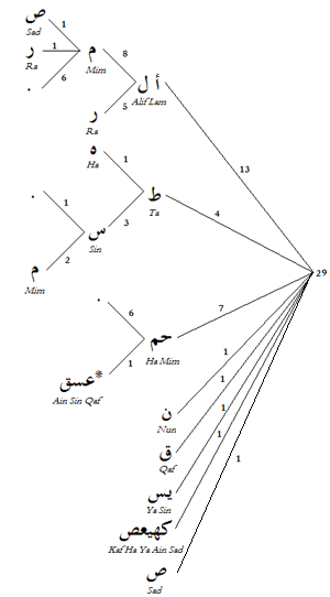 Tree chart of the Qur'anic initial letters (to be read right to left), made by Mustafaa at English Wikipedia.